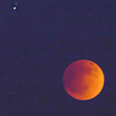 Lunar eclipse at May 4th, 2004